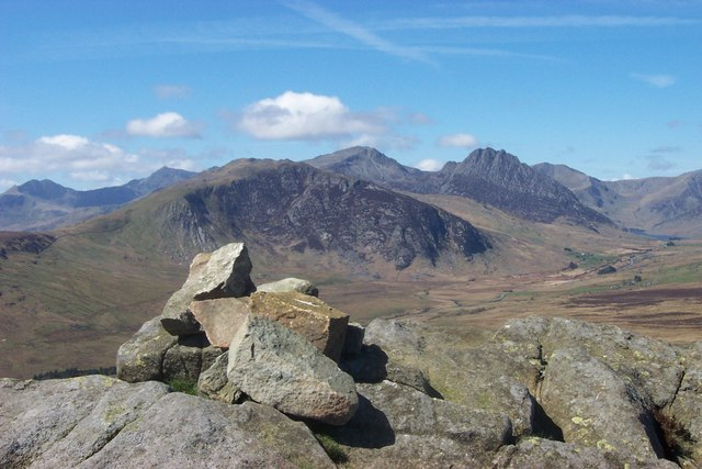 Ogwen Valley from Craig Wen. View westwards of the Ogwen valley from Craig Wen Summit